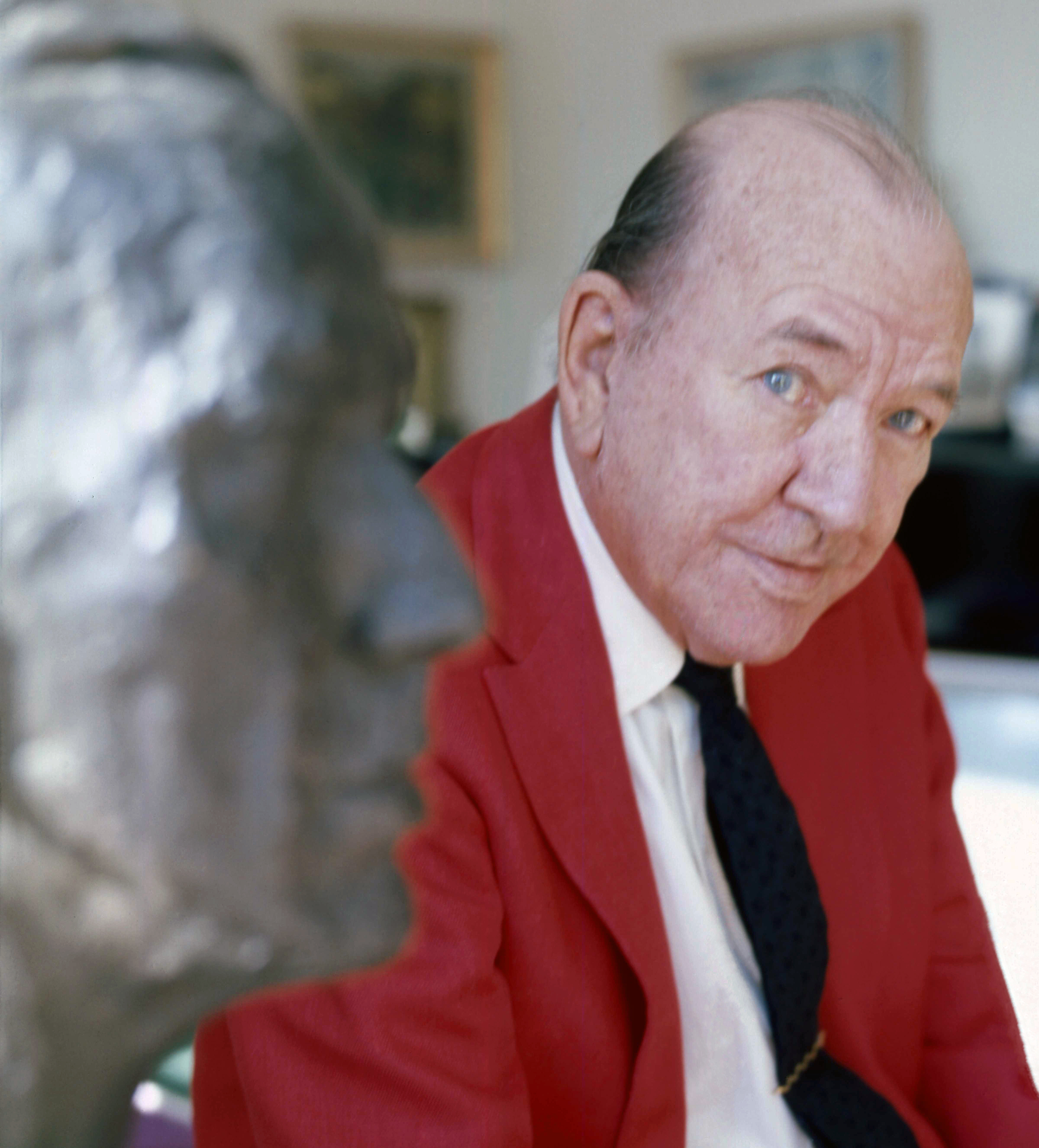 Sir Noel Coward with his bust taken at his home in Switzerland